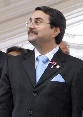 The Vice President of Paraguay Federico Franco, in Independence day, Asunción, Paraguay